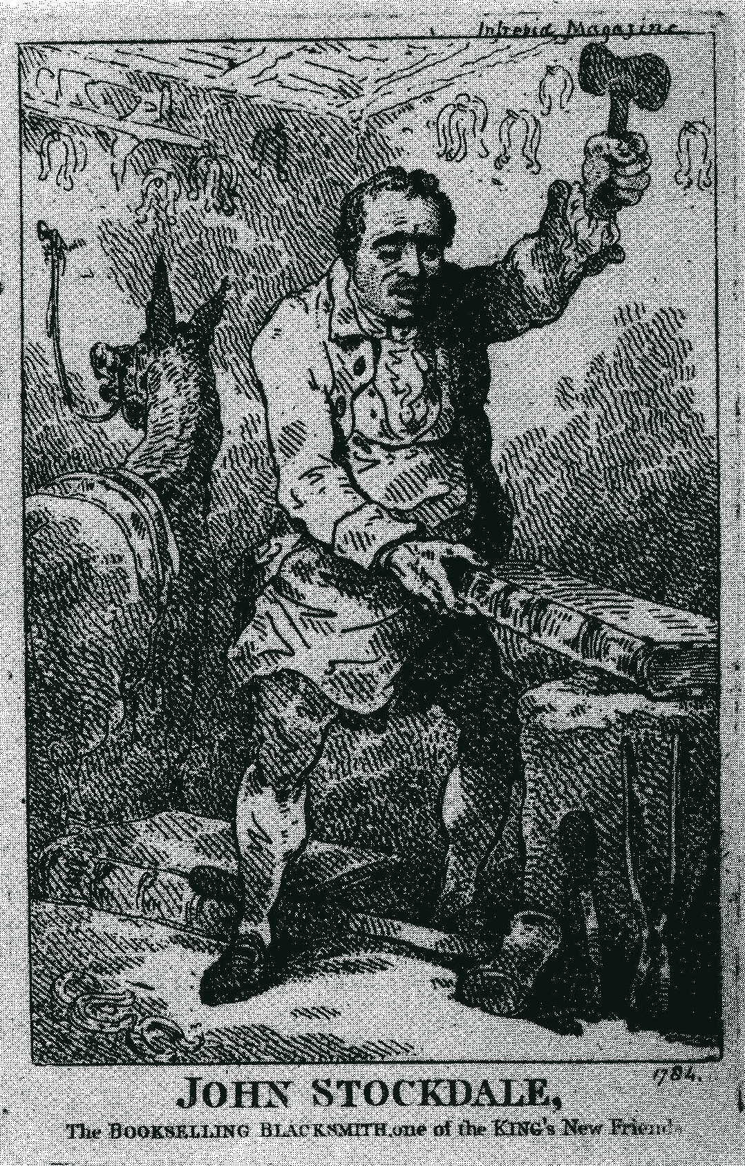 Engraving of John Stockdale (1750-1814)